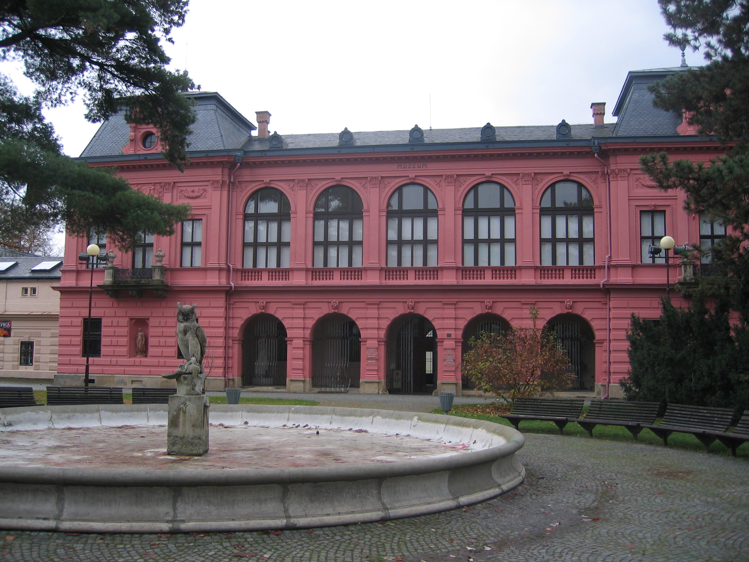 Museum in Šumperk, Czech Republic.